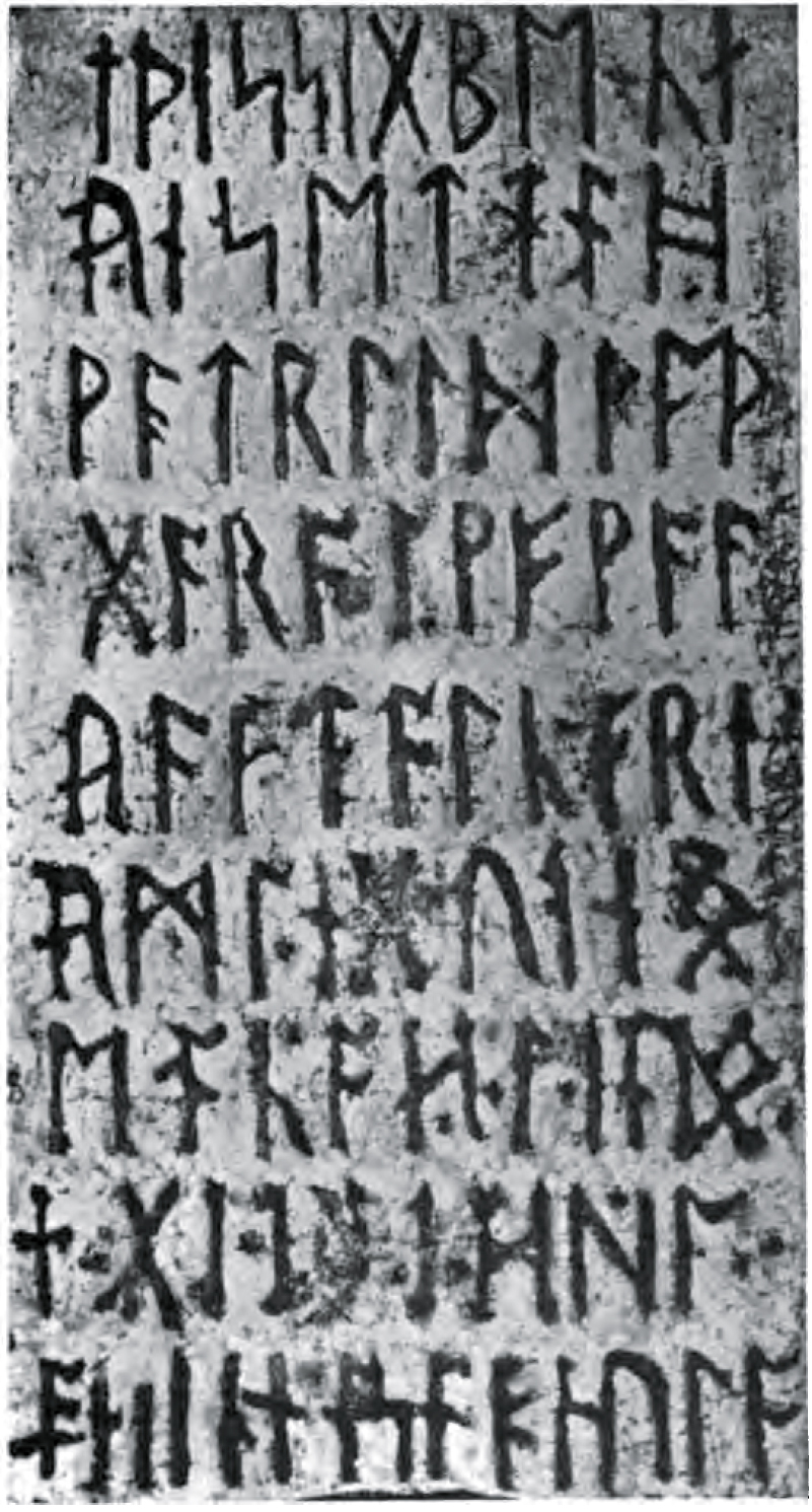 Captioned as "Fig. 22. Collingwood's Plate of Runes (From Early Sculptured Crosses)."